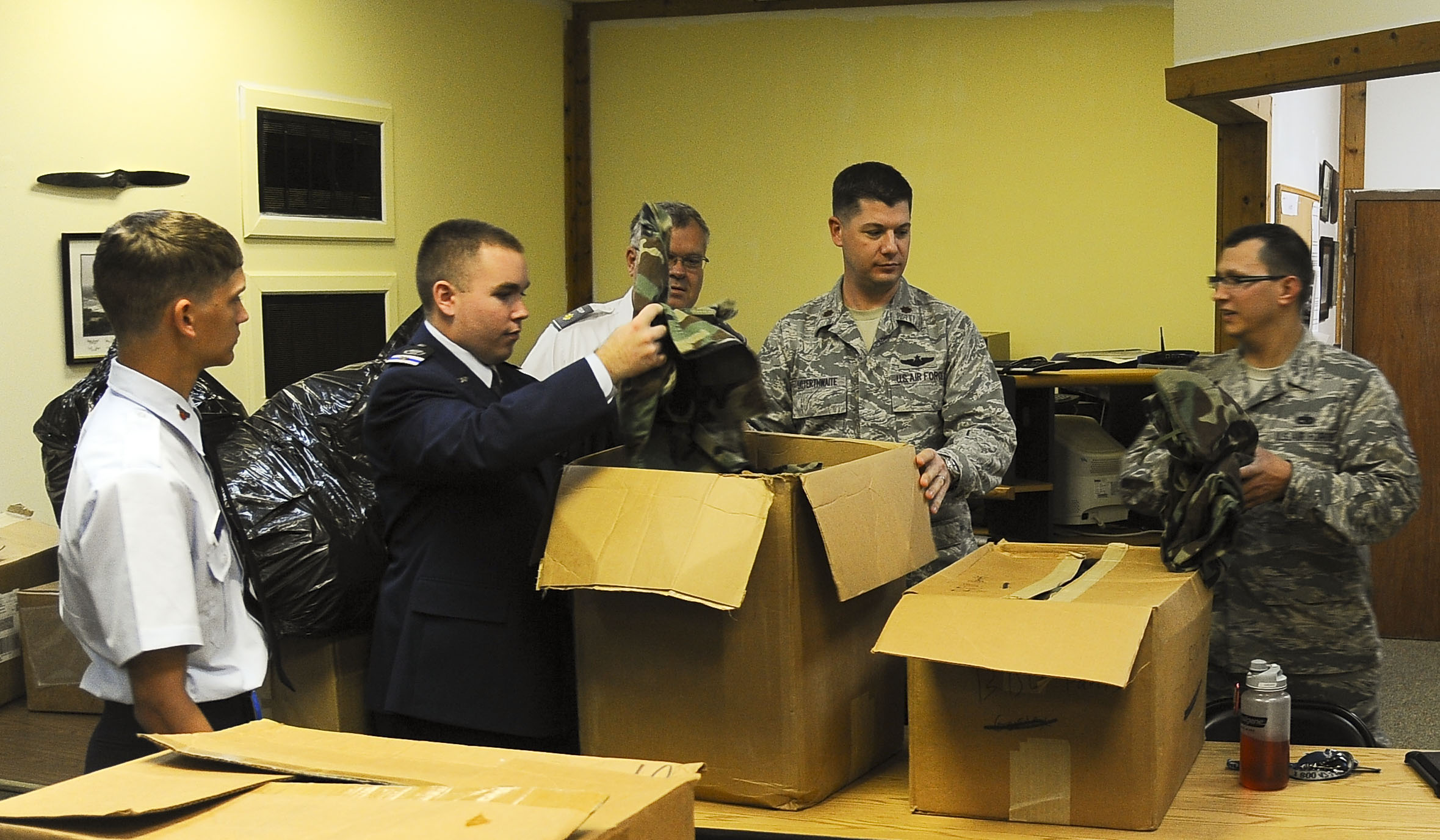 Members of the Civil Air Patrol MacDill Aviation Cadet Squadron sort through boxes of uniform donations they received at MacDill Air Force Base, March 12, 2013. They were presented with 50 woodland style BDUs by Col. Douglas Schwartz, 927th Air Refueling Wing commander here. (U.S. Air Force photo by Airman 1st Class Vernon Fowler/Released)